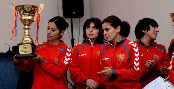 2014-2015 - First place, FC Yerevan-G.M. Armenian Women’s autumn tournament Armenia